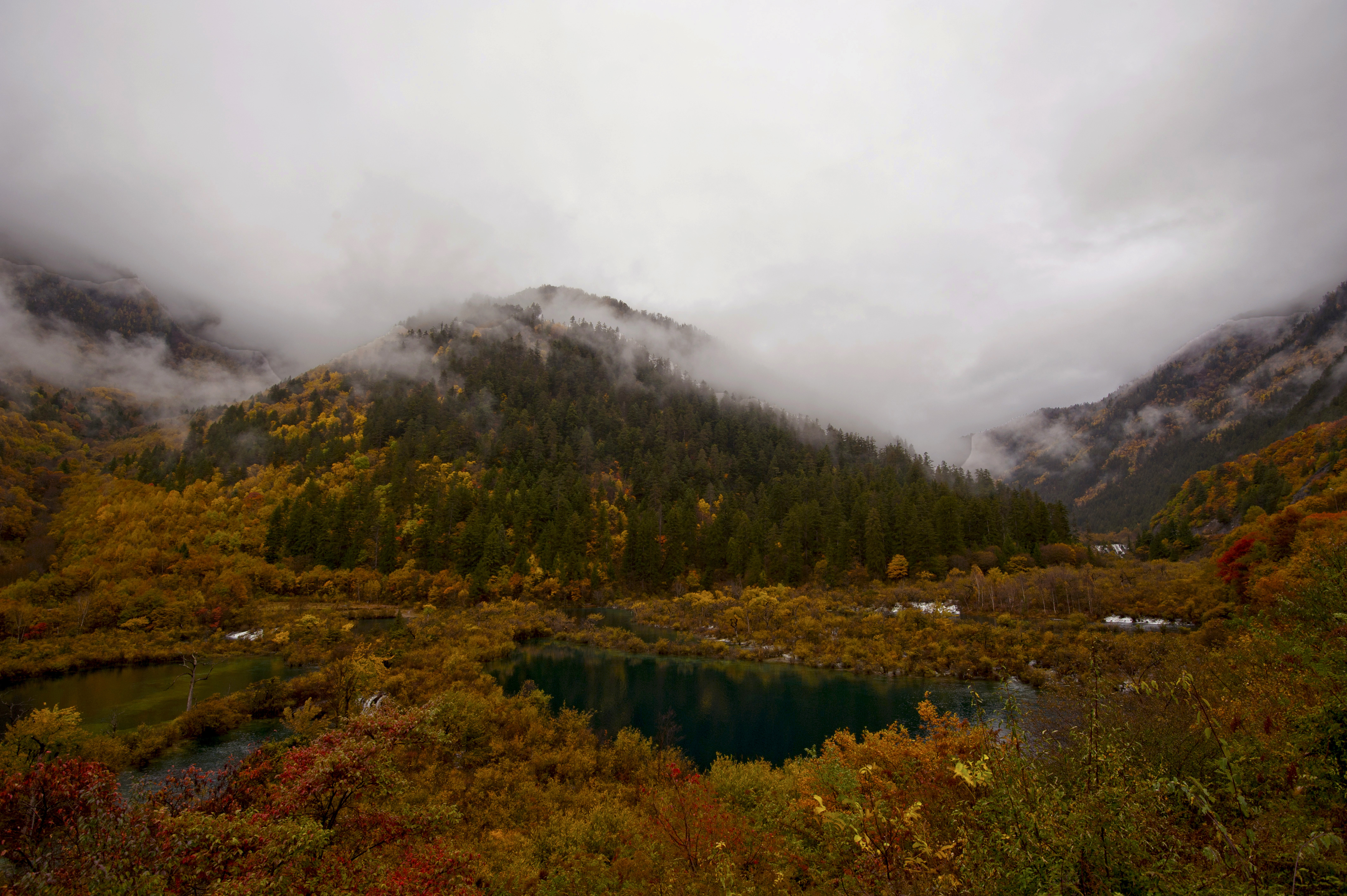 jiuzhaigou valley national park sichuan china autumn fall 2011 卧龙海, Wòlóng Hǎi 五花海, Wǔhuā Hǎi shuzheng valley 树正沟